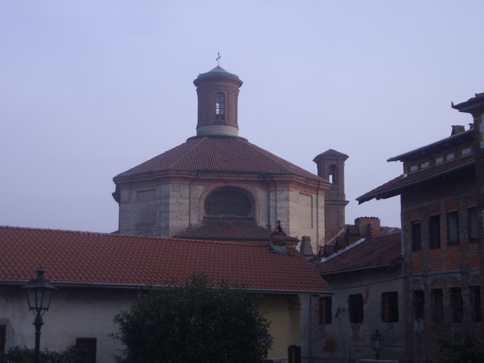 View of the parish church from the castle’s park, Borgomasino, Torino, Italy